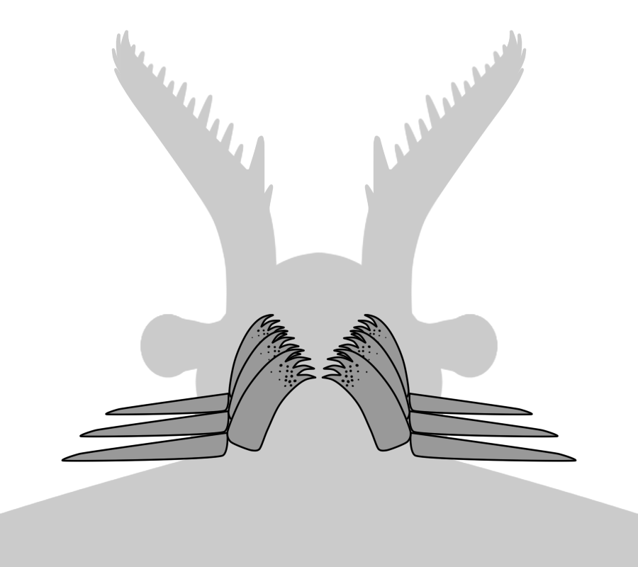 Gnathobase‐like structures (GLSs) and anterior flaps (neck flaps) of a radiodont (Dinocaridid, stem-group arthropod).